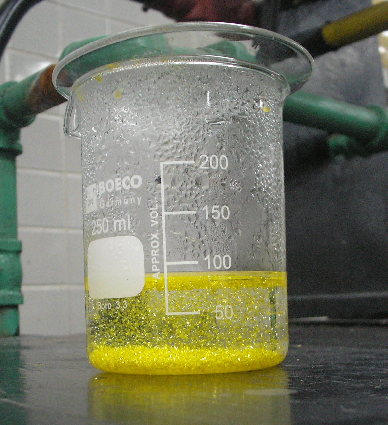 Lead(II) iodide precipitation it is known as “golden rain”, because of the yellow hexagonal crystals formed. This picture was taken after cooling a heated lead(II) nitrate and potassium iodide solution on a Bunsen burner.